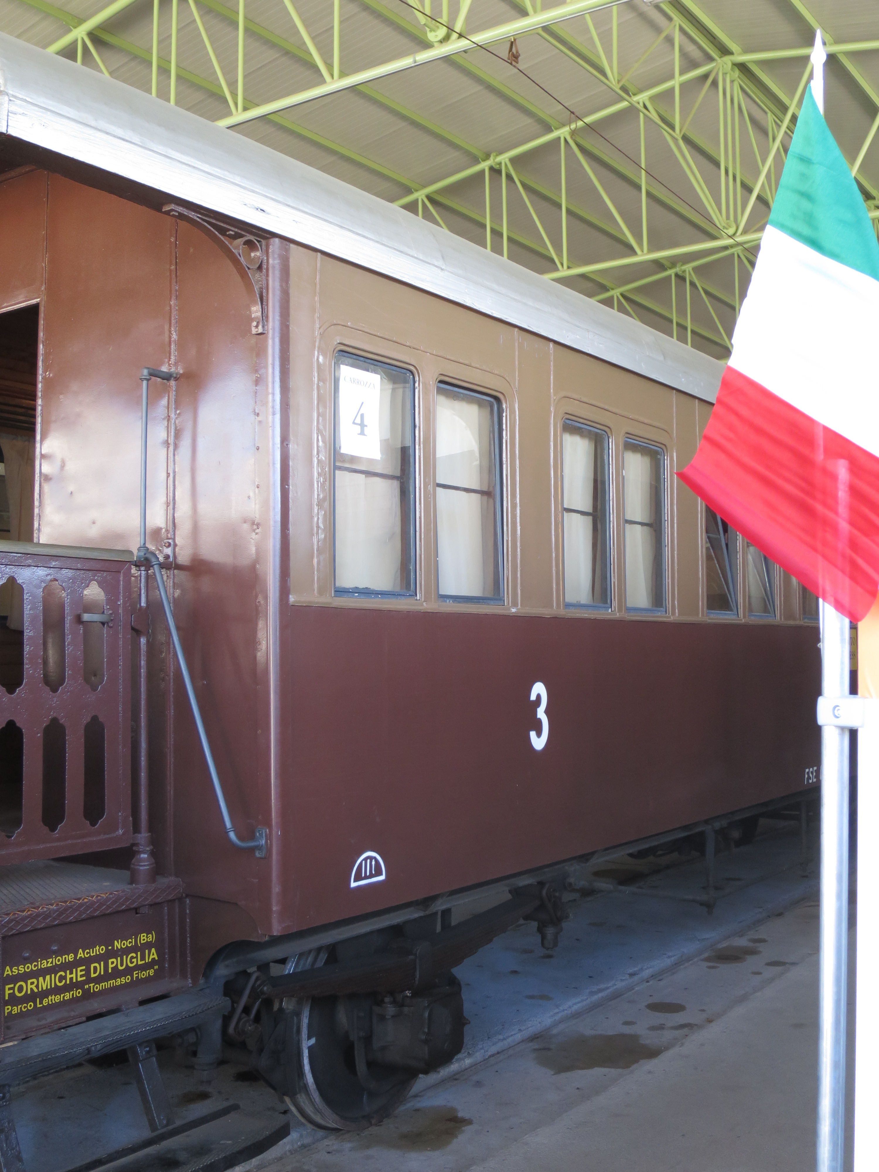 Coach of Ferrovie del Sud-Est